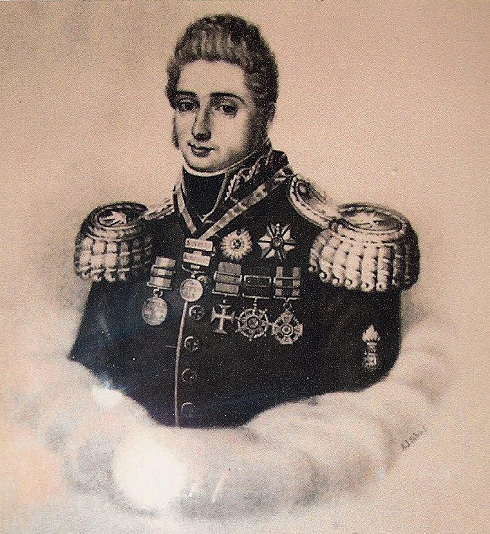 Engraved portrait of Francisco Homem de Magalhães Pizarro (1776-1819), a Portuguese general of the Peninsular War period.